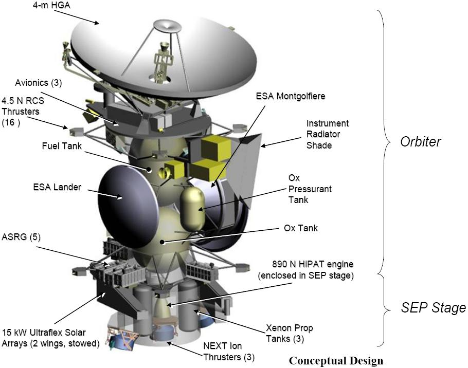 The orbiter probe which is planned to be part of the proposed Titan Saturn System Mission. Slated for launch in 2020 it is planned to arrive at the Saturn system around 2029 and to enter orbit around Titan in 2031.